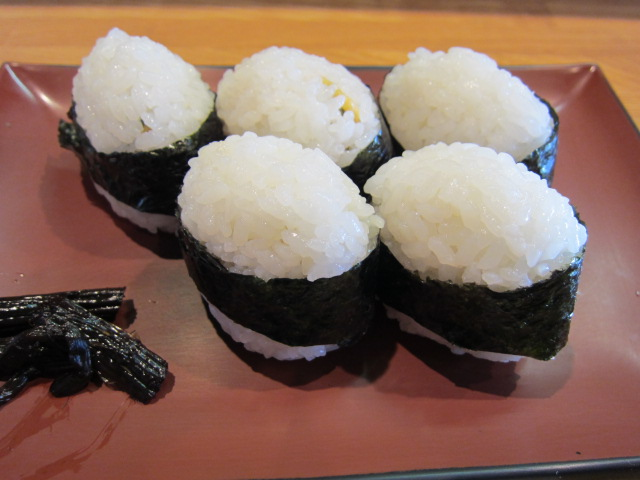 Japanese rice balls with Templa of a small lobster , at SENJU in Tsu - city